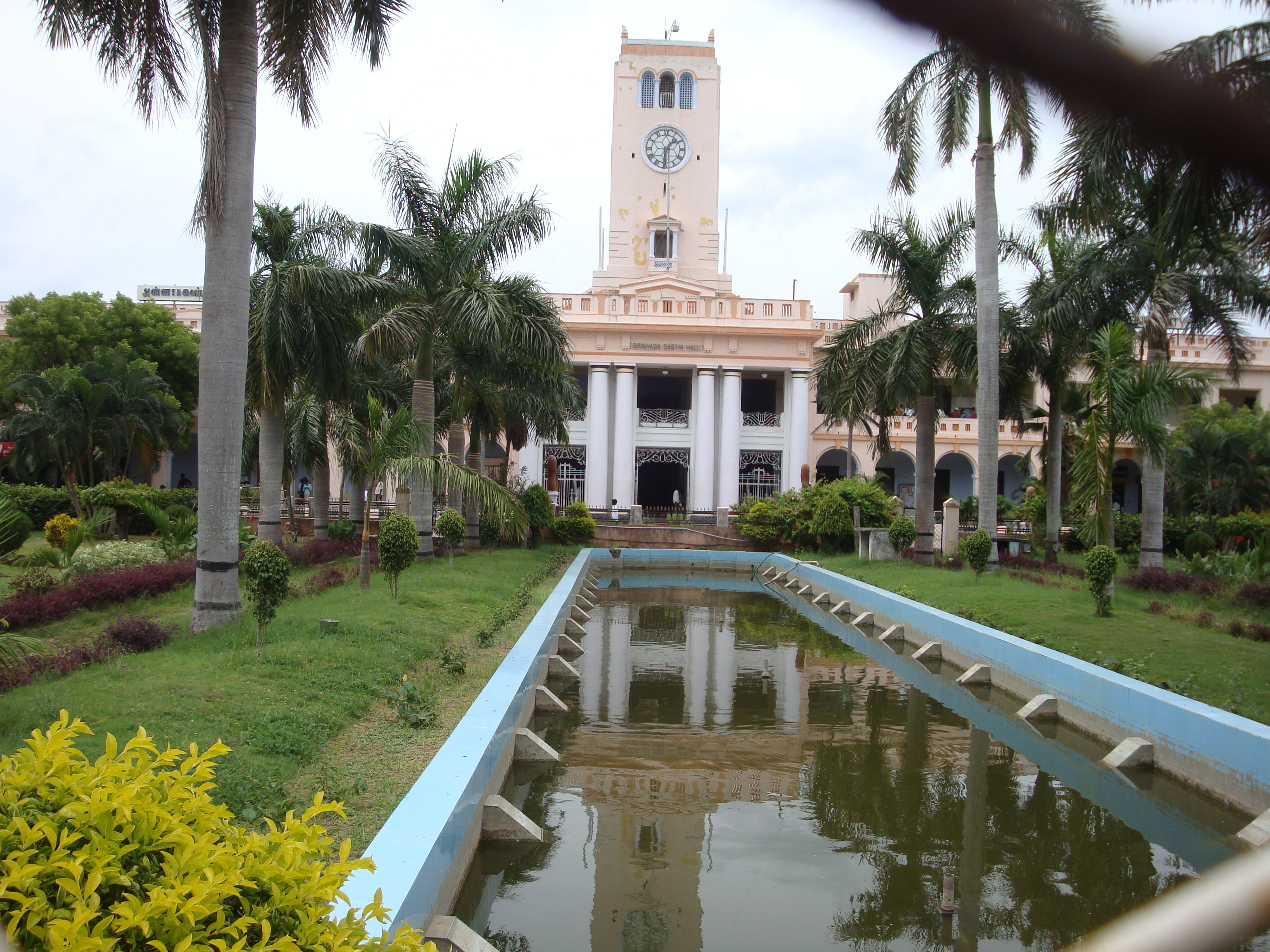 A View of the Administrative Building(Admin), Annamalai University